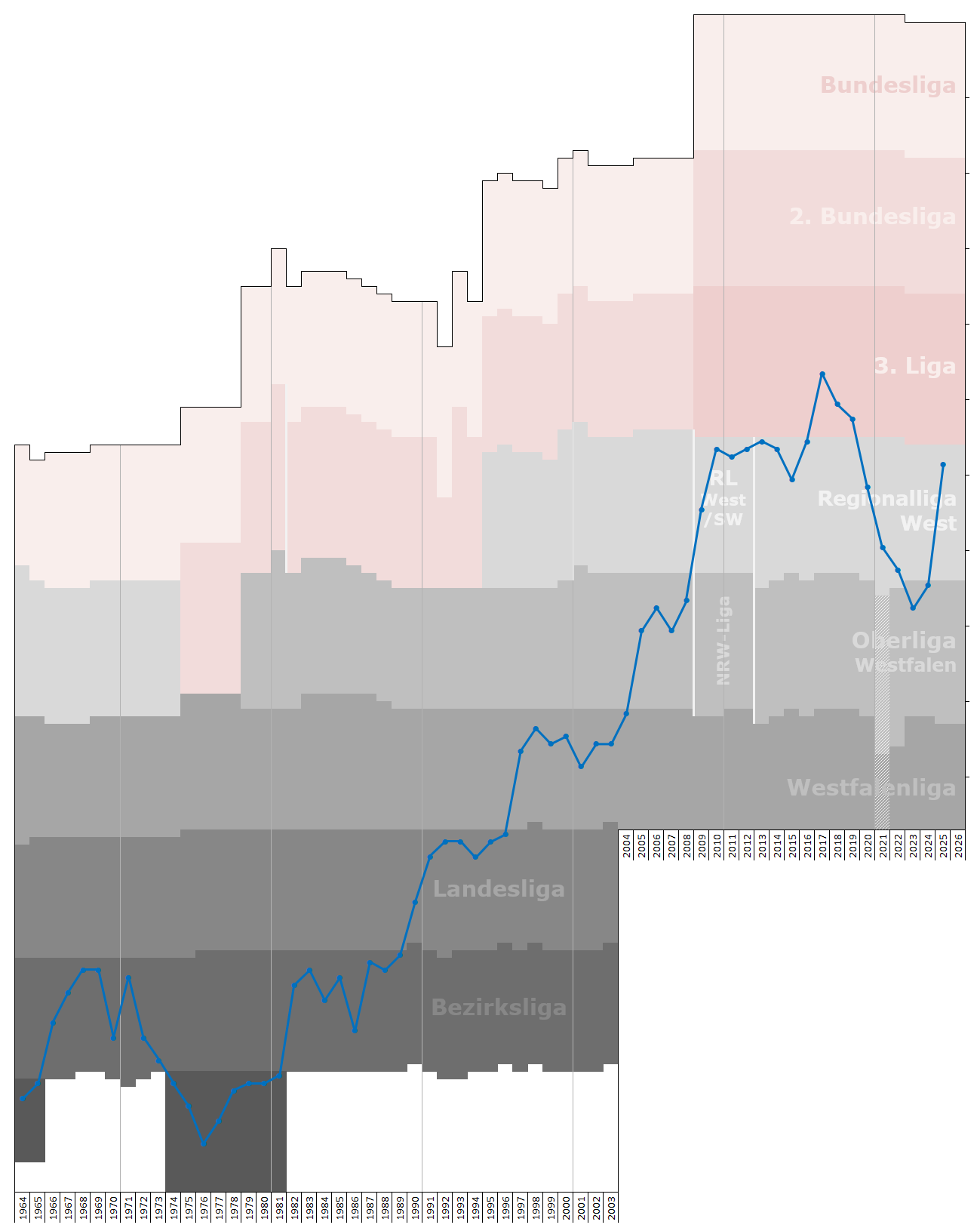 Chart of end-season table positions of Sportfreunde Lotte in the football league system of Germany. Data source: RSSSF, wikipedia, f-archiv.de, fussball.de